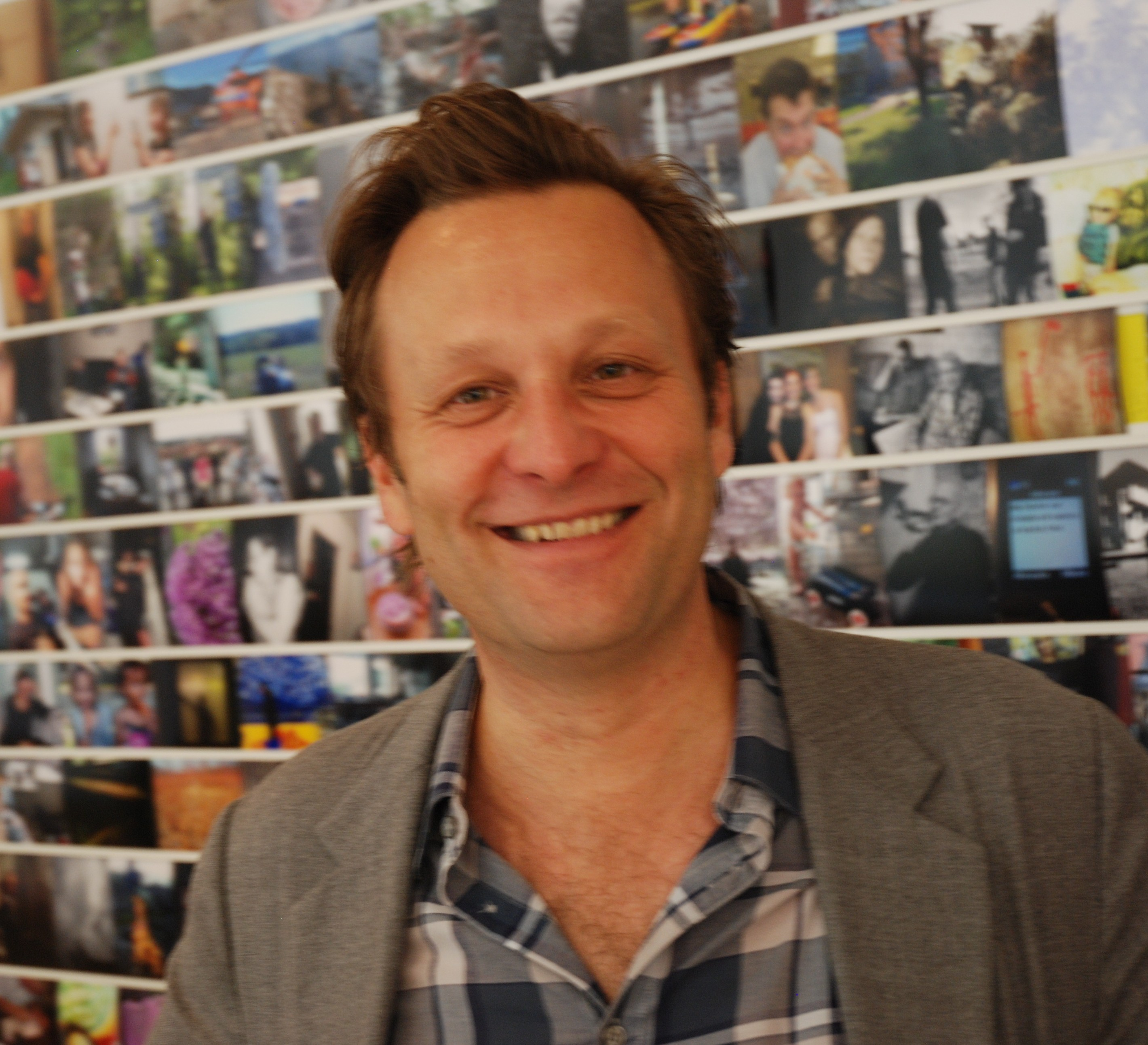 Daniel Birnbaum, at Moderna Museet in Stockholm, in front of "Everybody is a Photographer